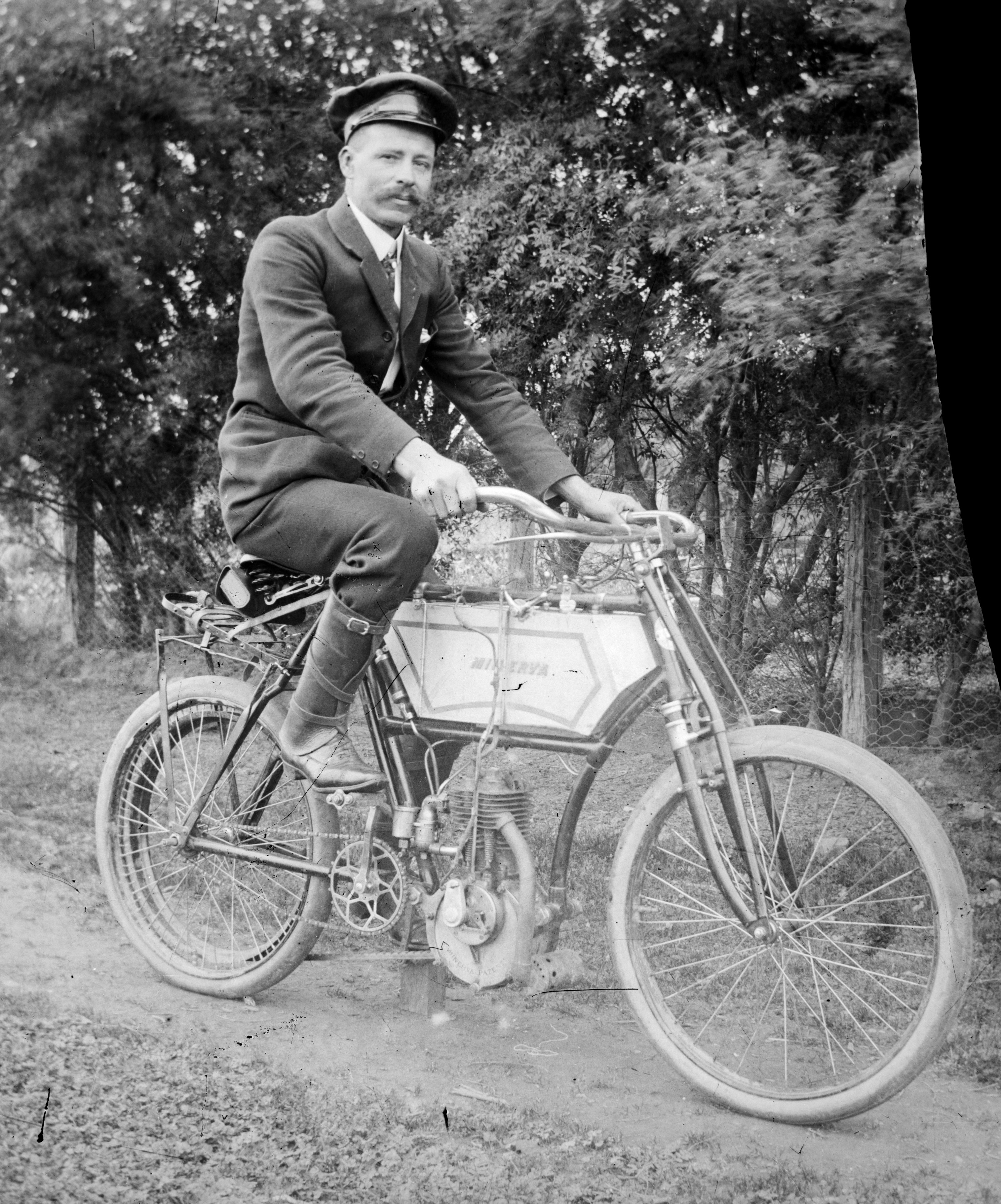 Man wearing a peaked cap and suit riding a motorised bicycle at Mt Buffalo, Victoria, Australia. The bike is labelled Minerva, a Belgian company that produced "Minerva Motocyclettes" between 1900 and 1909, after which they went on to specialise in luxury cars. This model probably dates from around 1903–04. A small internal combustion engine can be seen near the bottom bracket. The engine drives a belt connected to a large gear ring around the outside of the far side of the rear wheel. Converted to digital from negative: glass; 8.5 cm x 9 cm.